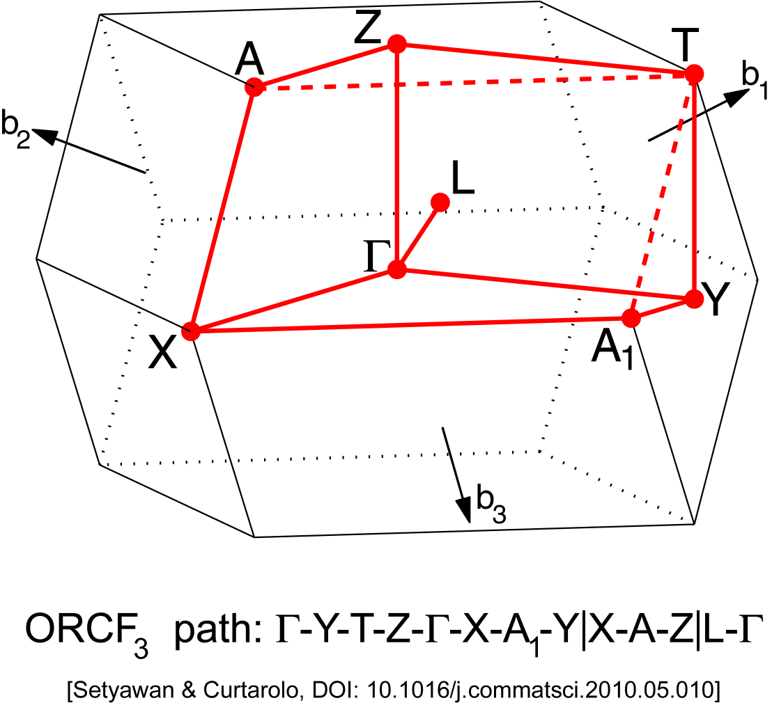 Curtarolo, consortium